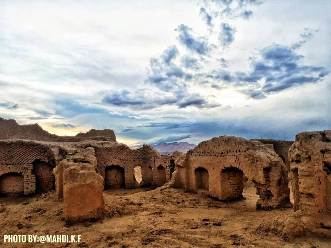 tape hesar and sasani tower